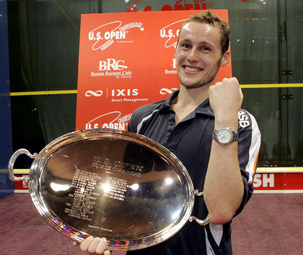 Grégory Gaultier with US Open Trophy